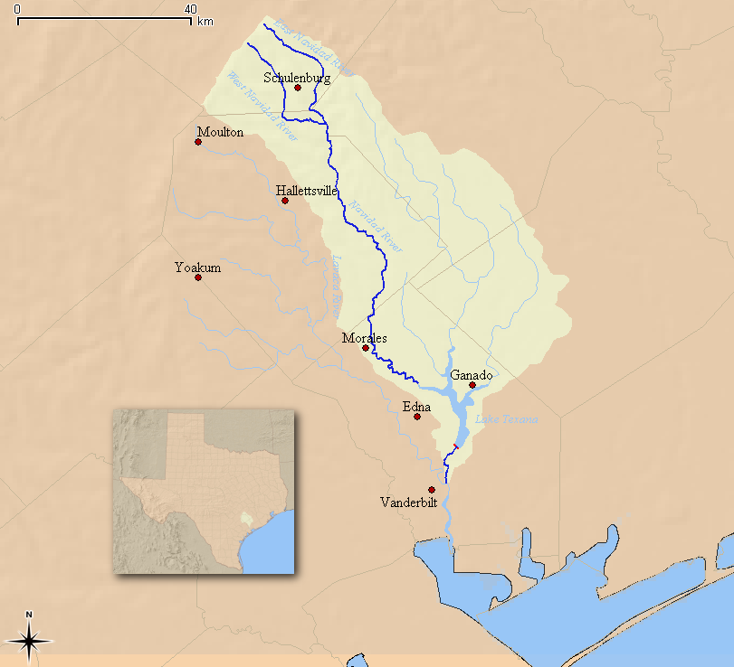 This is a map of the Navidad River watershed in Texas. I, Kuru, created from data originating at the USGS.